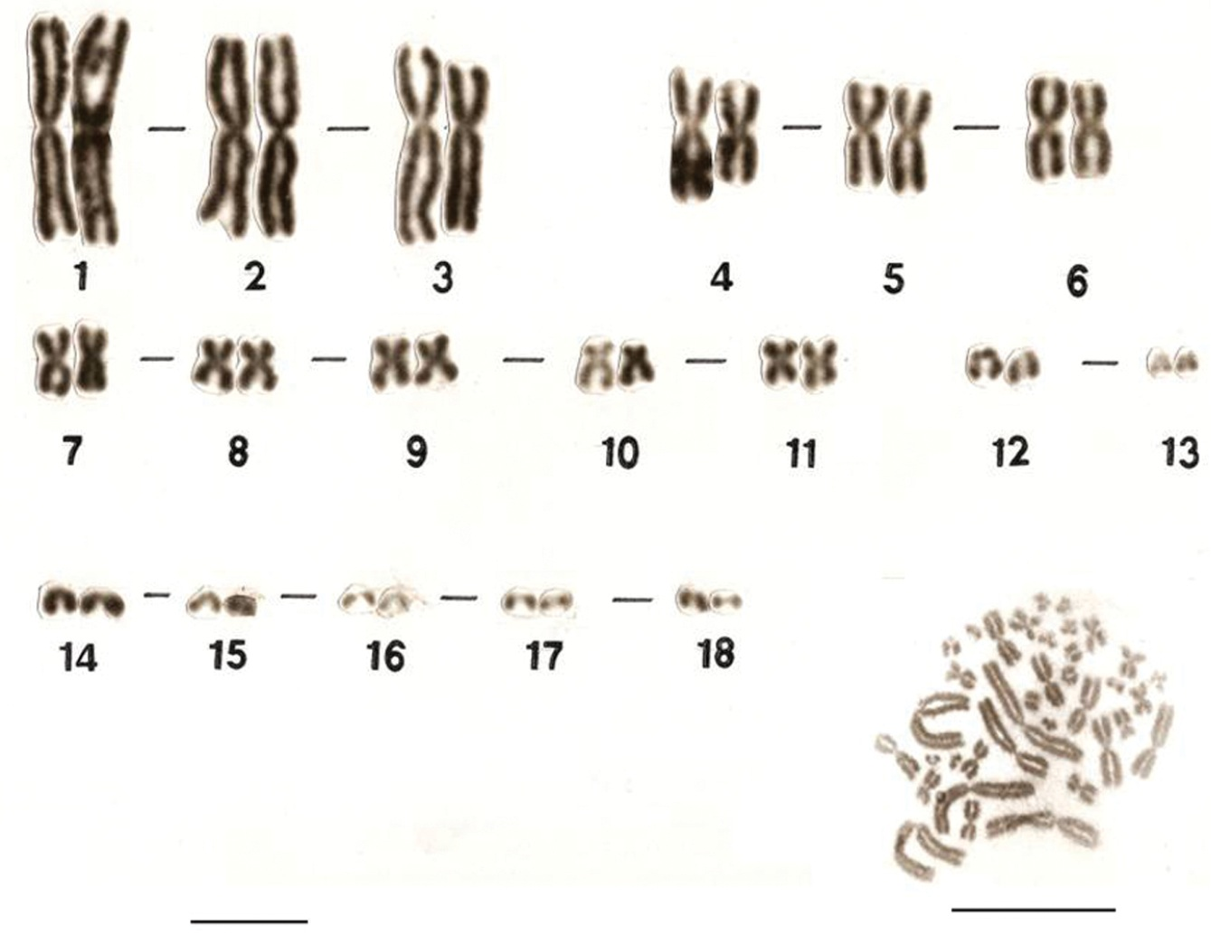 Giemsa stained male karyotype and female metaphase complement of Uraeotyphlus narayani. Bar = 10 µm.